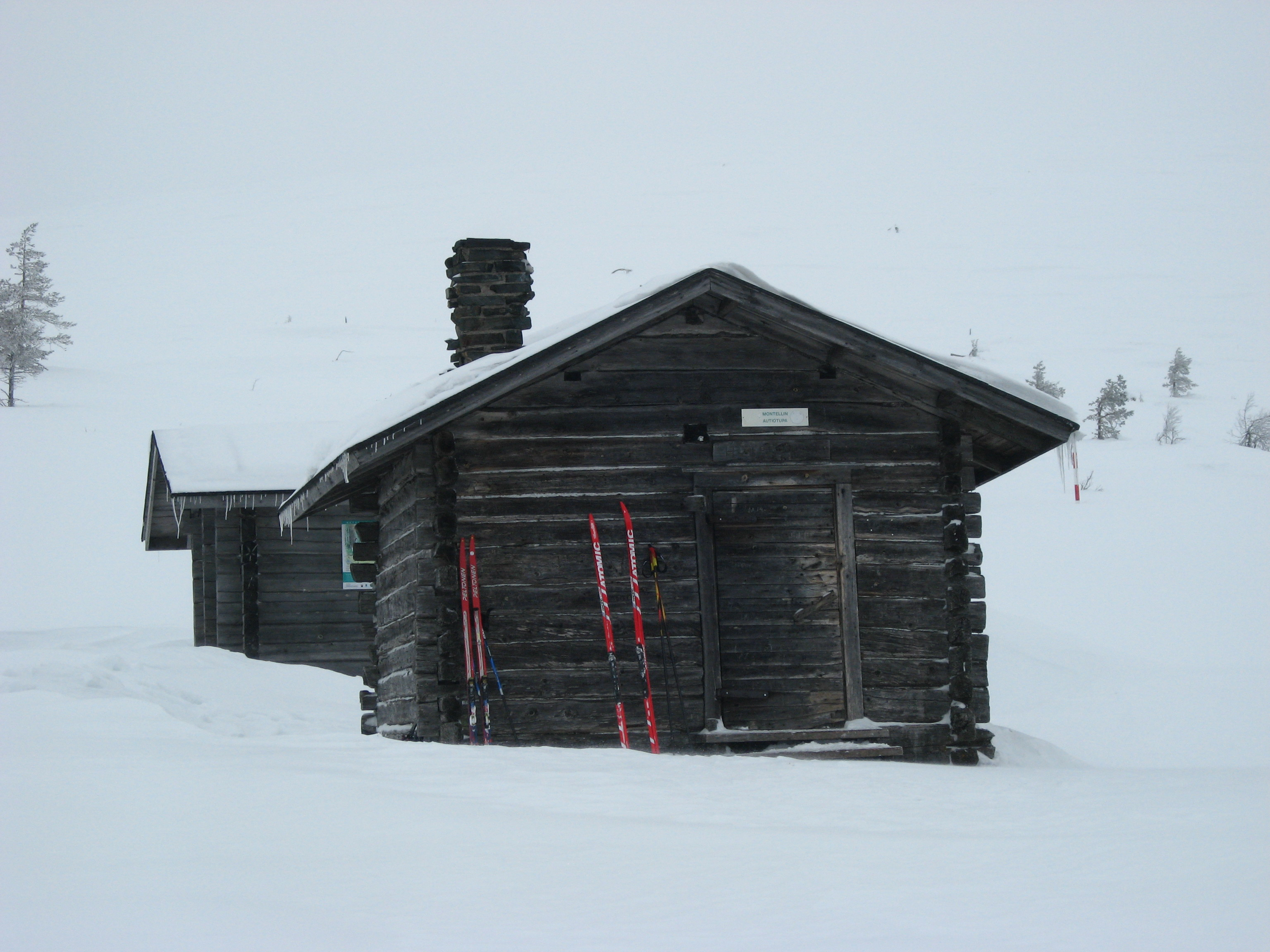 The Montell hut, a Wilderness hut, in Pallas-Yllästunturi National Park, Enontekiö, Finland. The hut is not original.